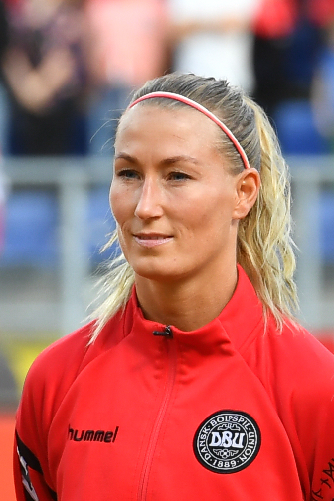 3/8/2017, Breda, Netherlands, sports, soccer, UEFA Women's Euro 2017 - Semifinal - Denmark vs Austria.